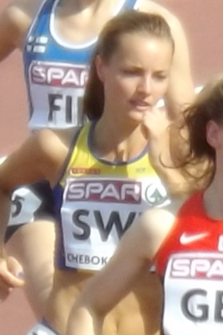 Lovisa Lindh at the 2015 European Team Championships